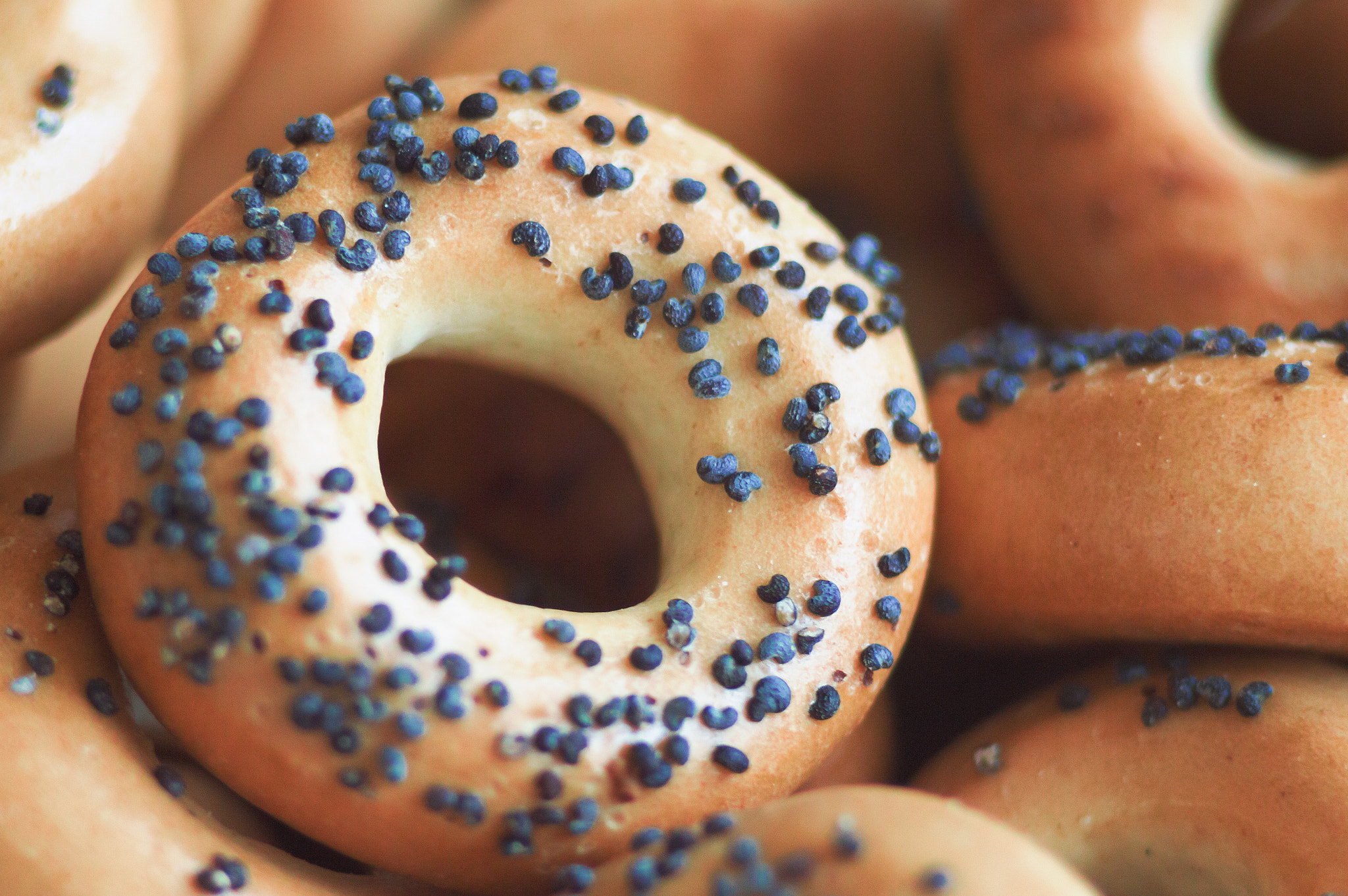 500px provided description: Bagel With Poppy [#poppy ,#macro ,#food ,#cooking ,#bagel]